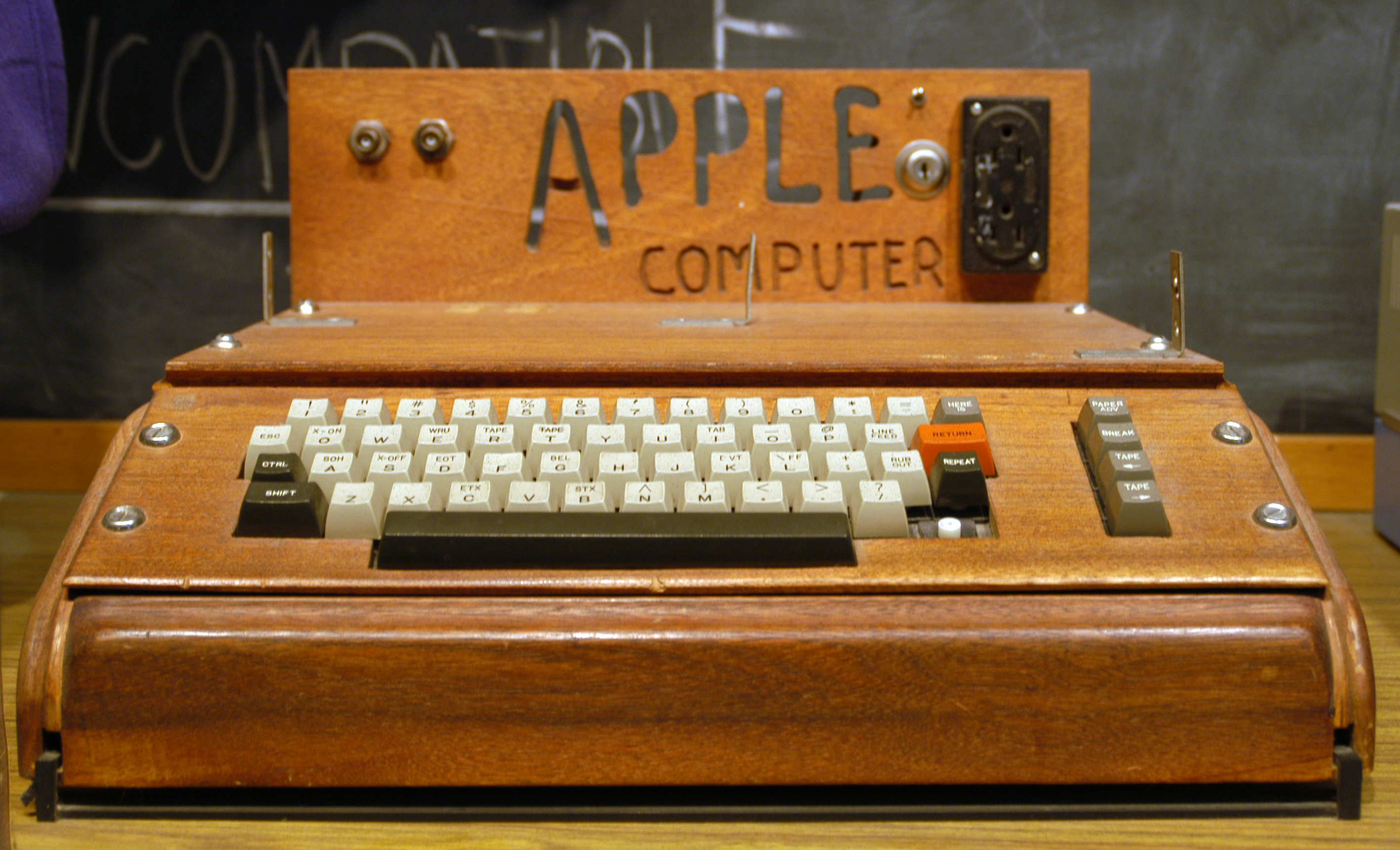 Apple I On display at the Smithsonian